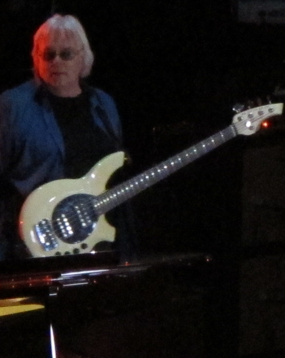 Cliff Hugo (of Supertramp) performing at the Save-On-Foods Memorial Centre.